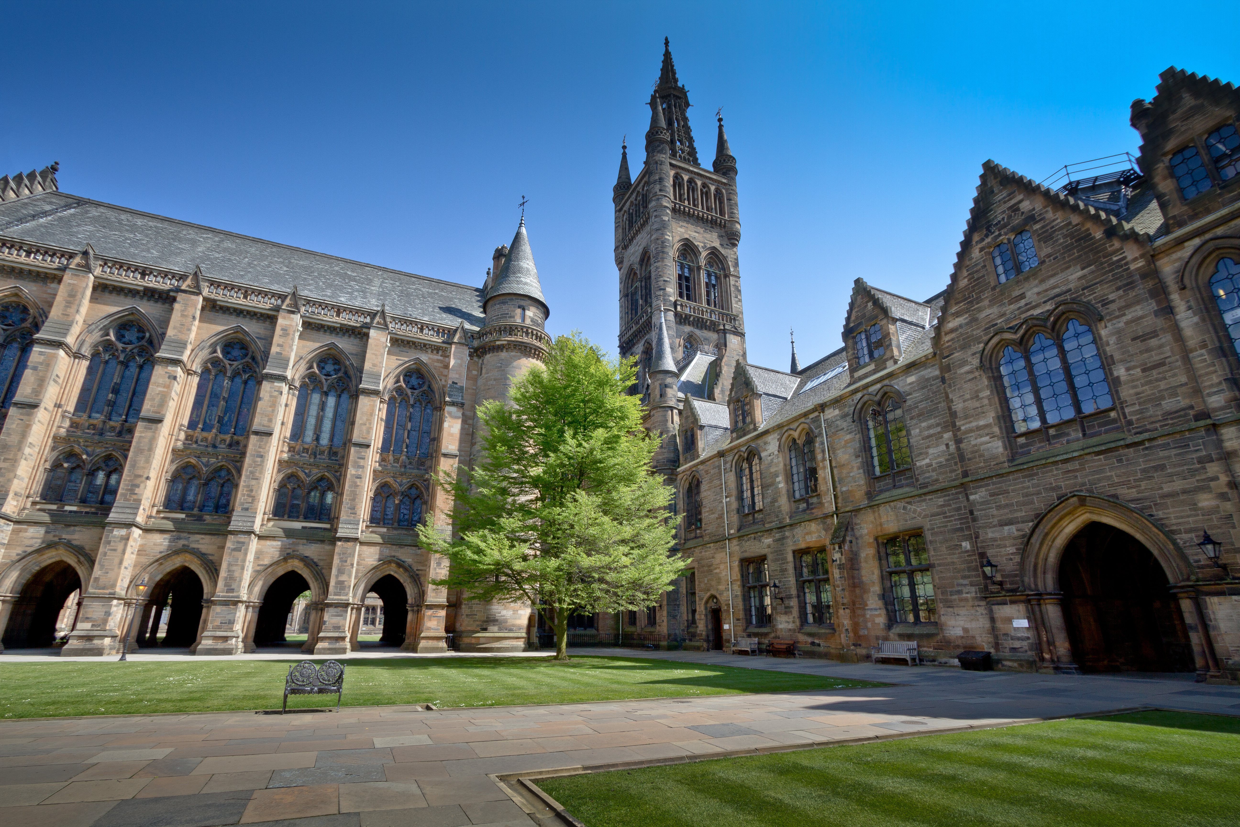 Here is a photograph taken from the Quadrangle inside the University of Glasgow. Located in Glasgow, Scotland, UK.